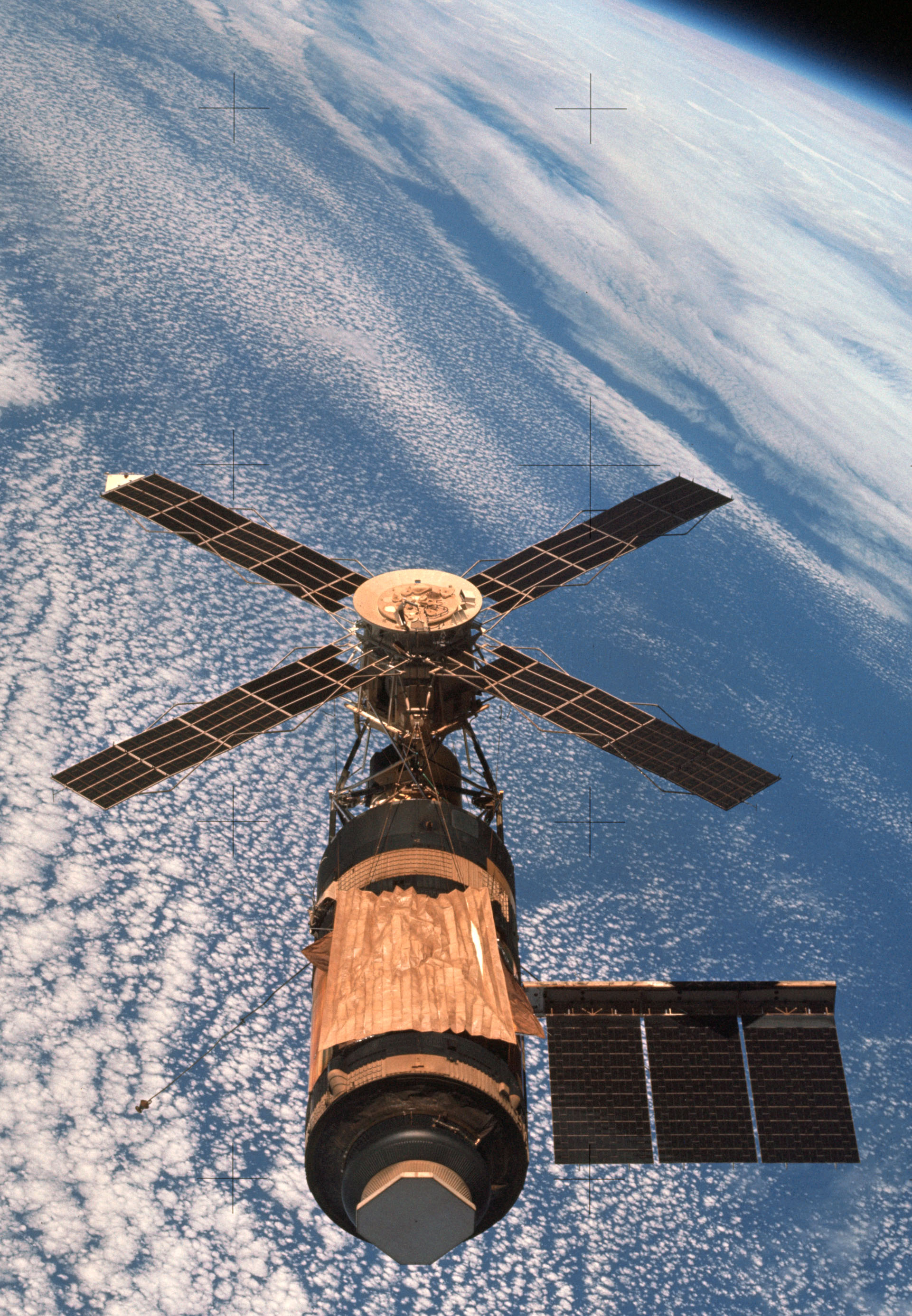 An overhead view of the Skylab Orbital Workshop in Earth orbit as photographed from the Skylab 4 Command and Service Modules (CSM) during the final fly-around by the CSM before returning home. The space station is contrasted against the pale blue Earth.